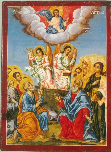 Ascension Icon by Toma Vishanov in Holy Trinity Church in Bansko.